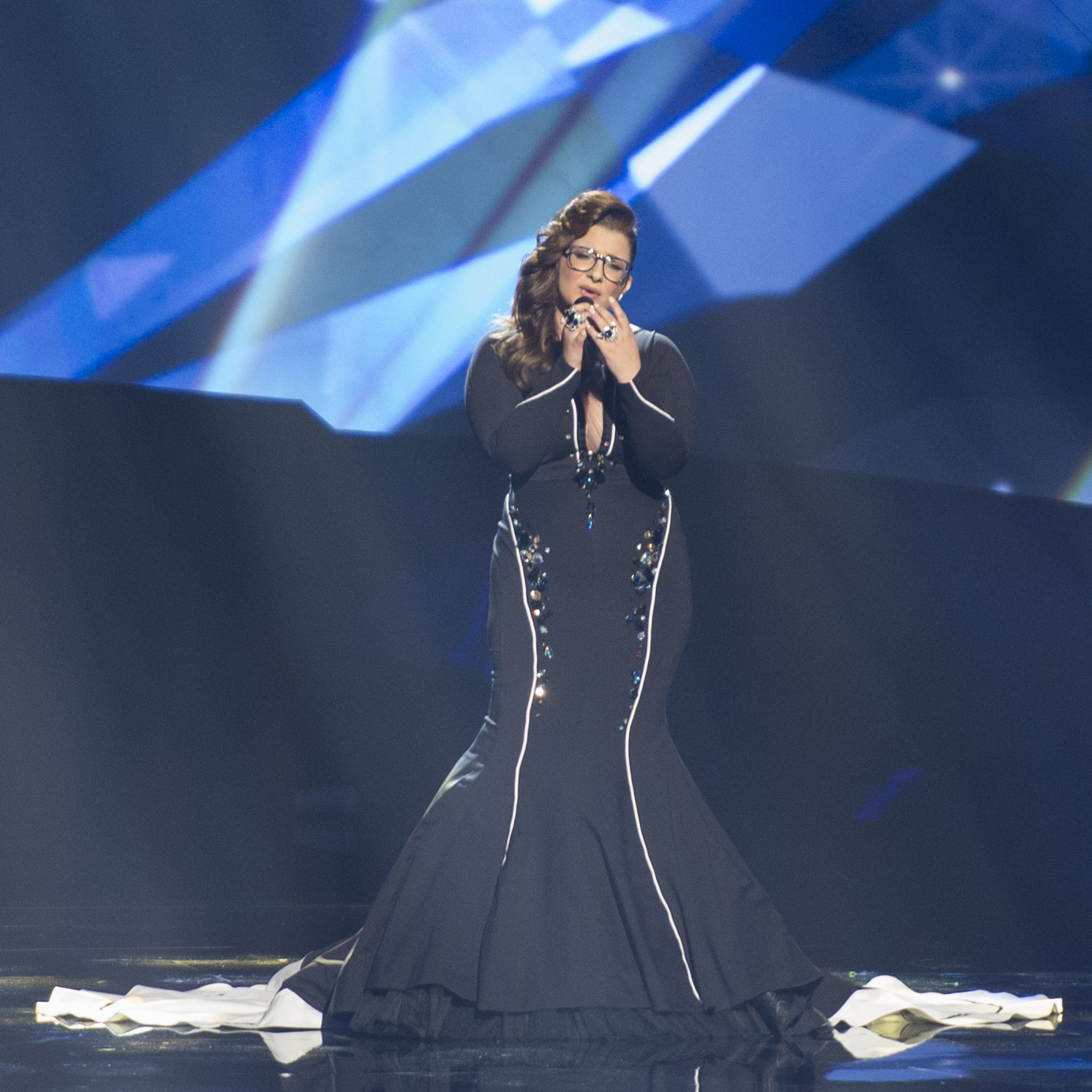 Moran Mazor representing Israel with the song "Rak bishvilo" during the second dress rehearsal of the second semi final of the Eurovision Song Contest 2013 Malmö. (Help translate this text)